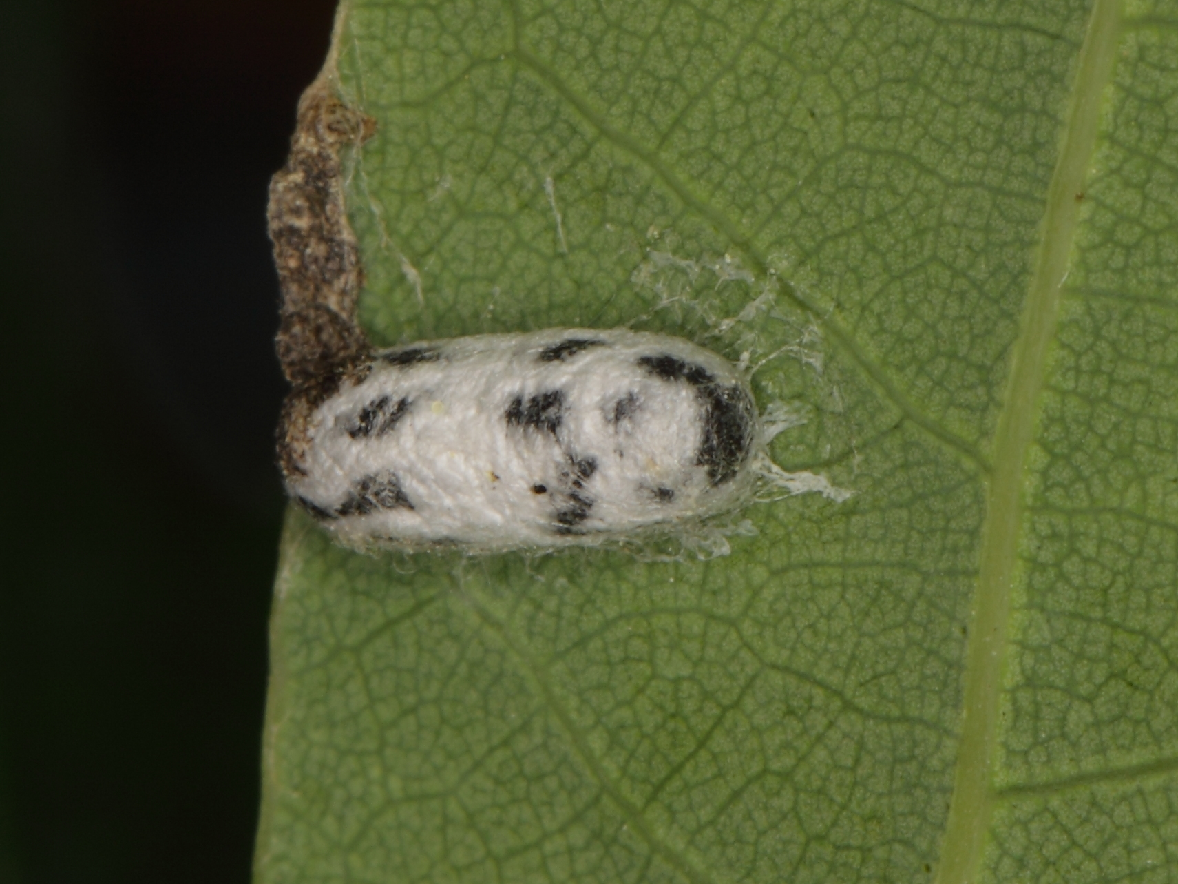 cocoon (pupa) of an ichneumonid wasp (Braconidae) attached to the underside of a leaf. And next to it, the empty skin of the caterpillar it had parasitized (see comments of JMDN and Bárbol) Phylum: Arthropoda Subphylum: Hexapoda Class: Insecta Order: Hymenoptera Suborder: Apocrita Superfamily: Ichneumonoidea (Ichneumoid wasps, Schlupfwespen) Family: Ichneumonidae (Ichneumon wasp) [det. "Bárbol", 2012, based on this photo] Subfamily: Campopleginae FÖRSTER, 1869 [det. "JMND", 2012, based on this photo] some info: more info: images of imagos & cocoons: it could be this one: Charops cf annulipes der Kokon einer Schlupfwespenart NE-Germany, Brandenburg: vic. Doberlug-Kirchhain, ca. 50m asl., 27.05.2012 IMG_0724